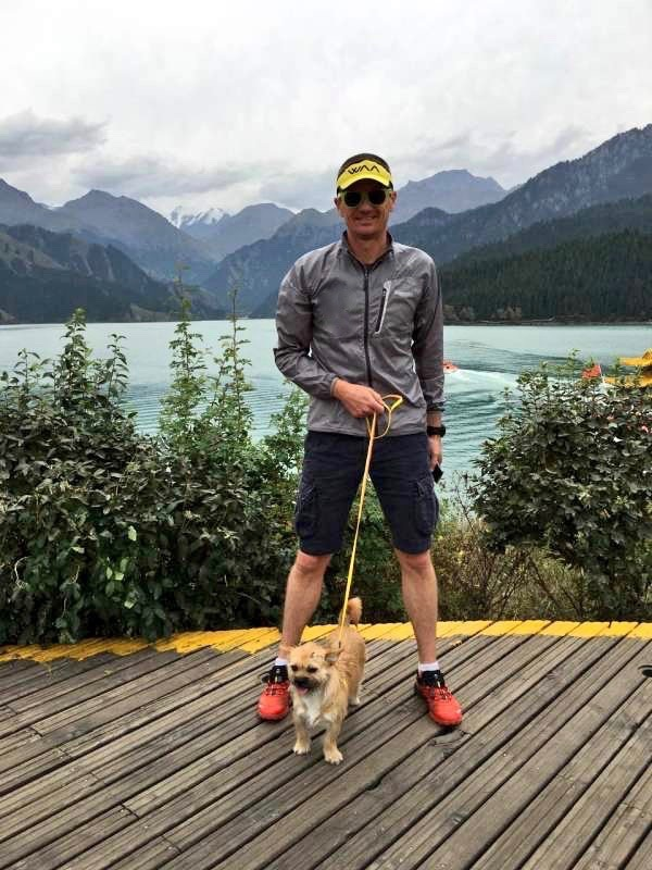 Dion and Gobi a few days after Gobi was found in Urumqi.